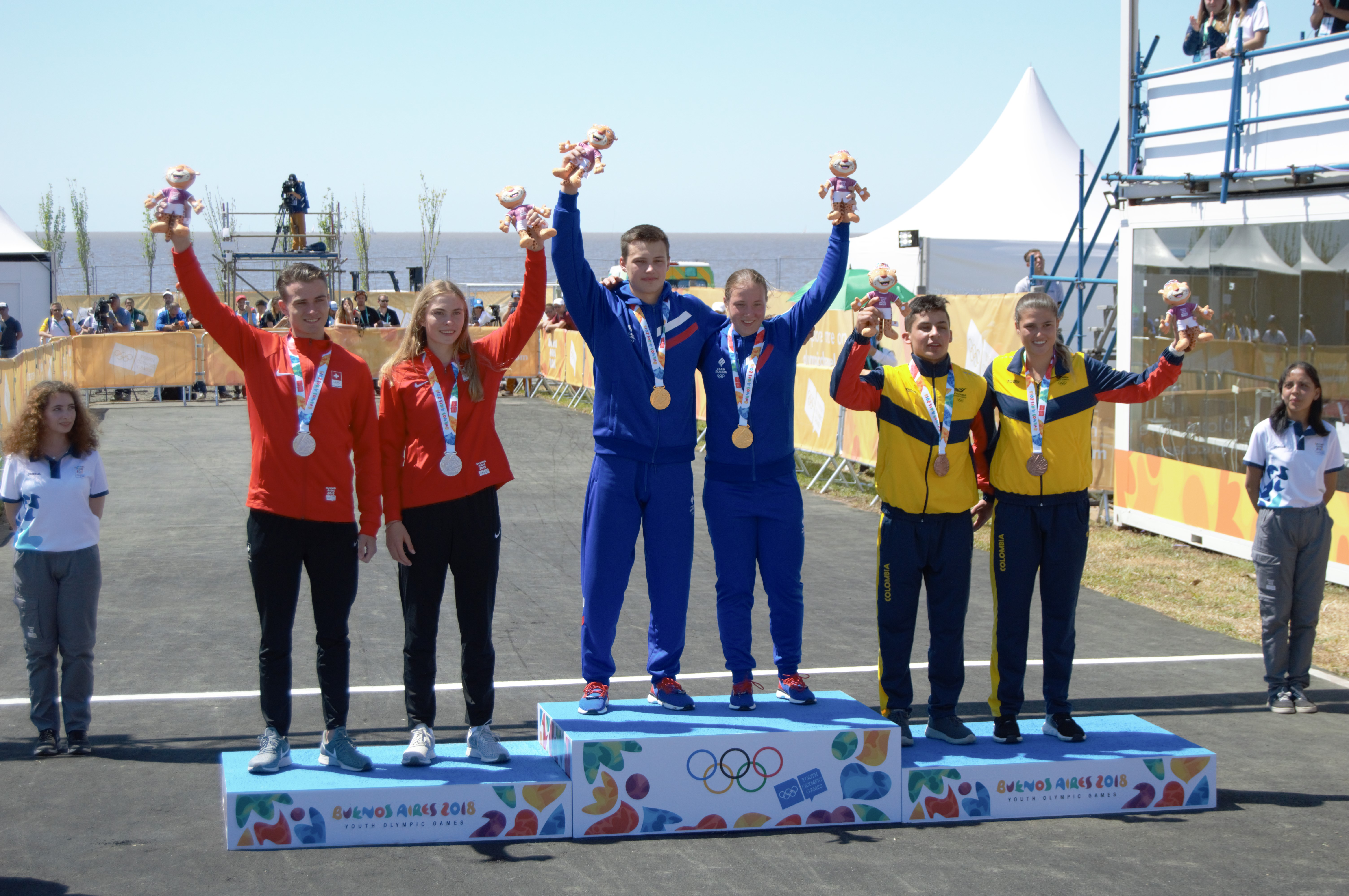 Victory ceremony of the BMX Racing tournament of the 2018 Summer Youth Olympics.